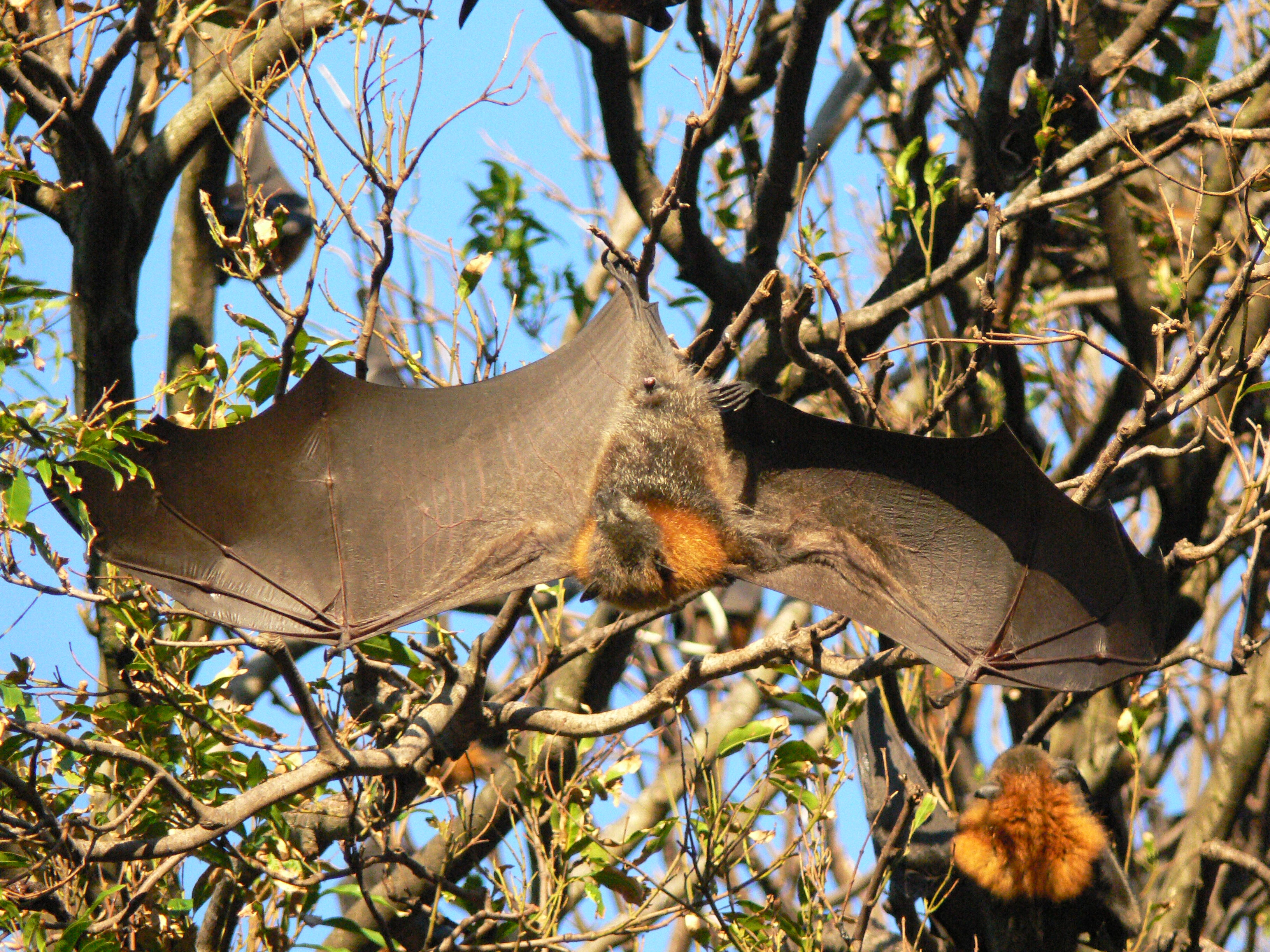 Flying fox flying off tree at the Royal Botanic Gardens, Sydney, Australia.